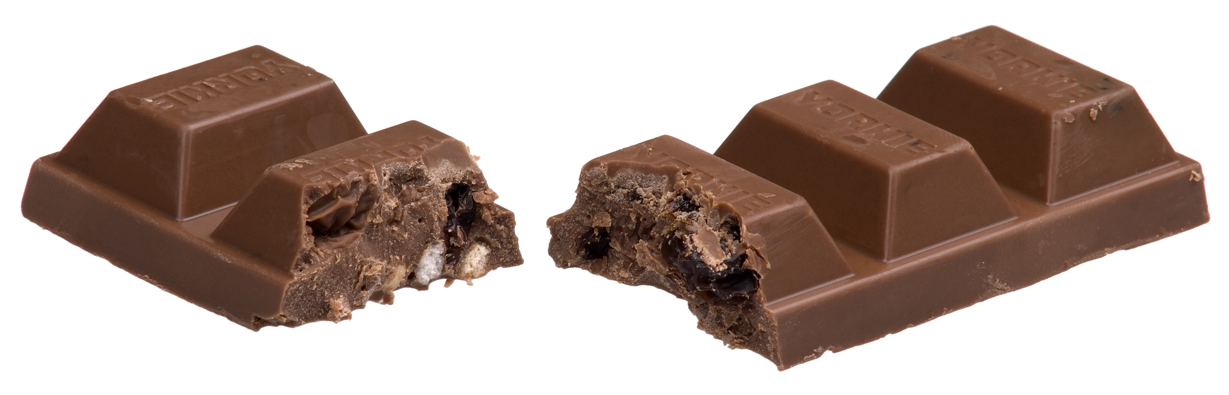 A Yorkie Raisin & Biscuit candy bar that has been split in half.